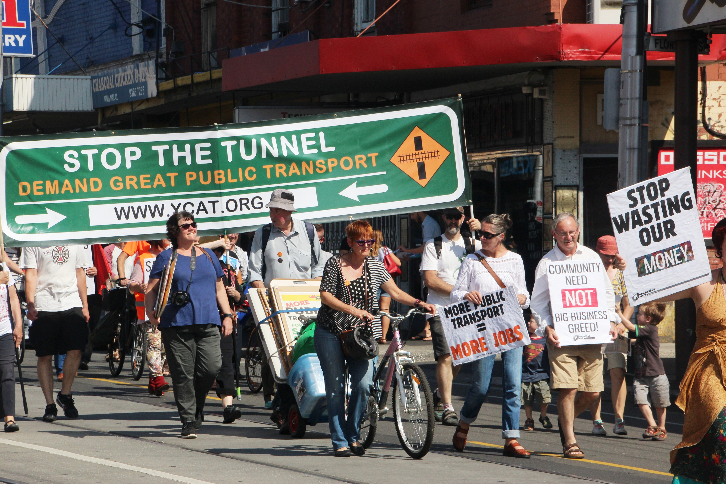 Trains not Tollroads Brunswick Rally and march, 30 March 2014